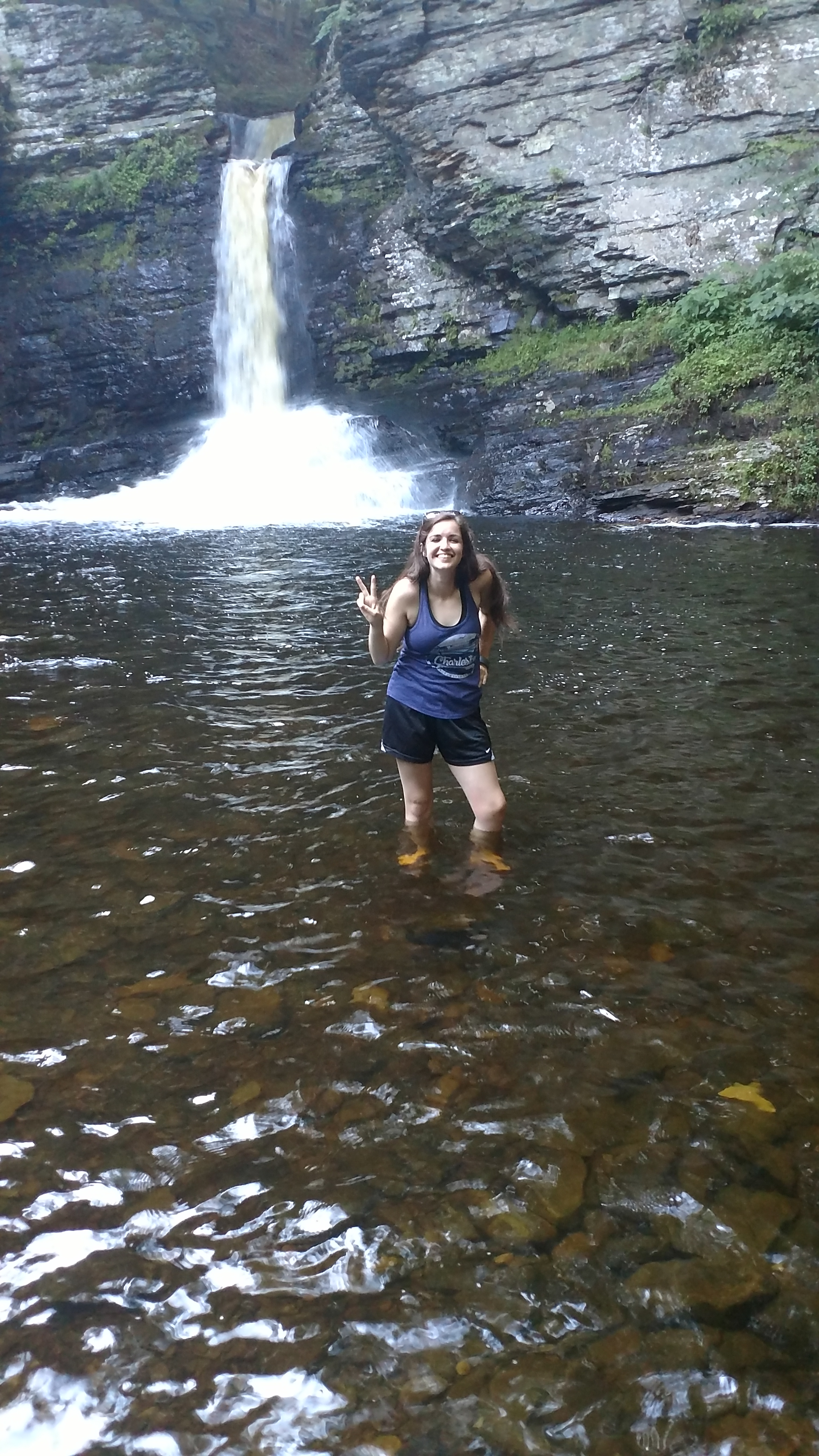 Deer Leap Falls Entered